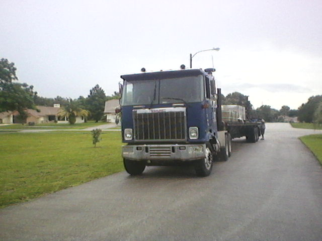 Front view of a GMC Astro 95 Tractor Trailer from the early-to-mid-1980's owned by a landscaping company in Florida. Trucks like this are very hard to come by these days.